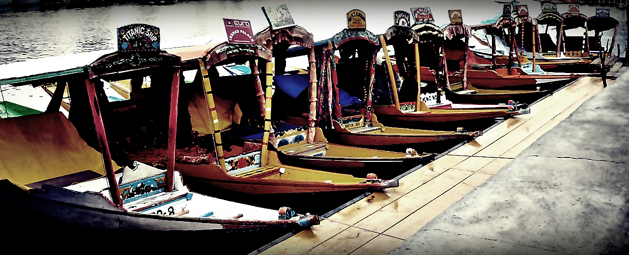 photo of shikara